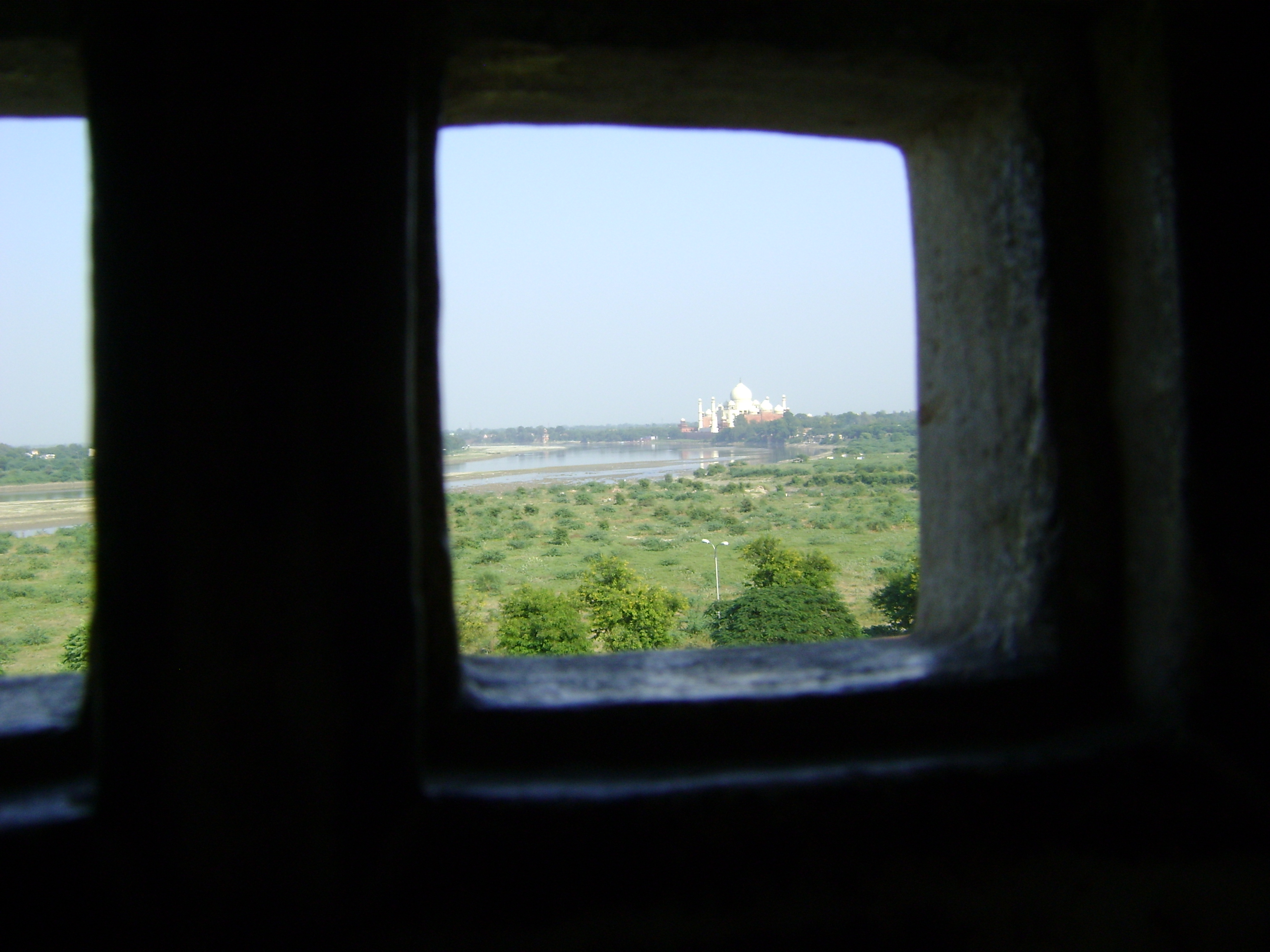 This is a view of Taj Mahal from Agra fort from where Shah Jahan used to watch the musoleum of his beloved wife.